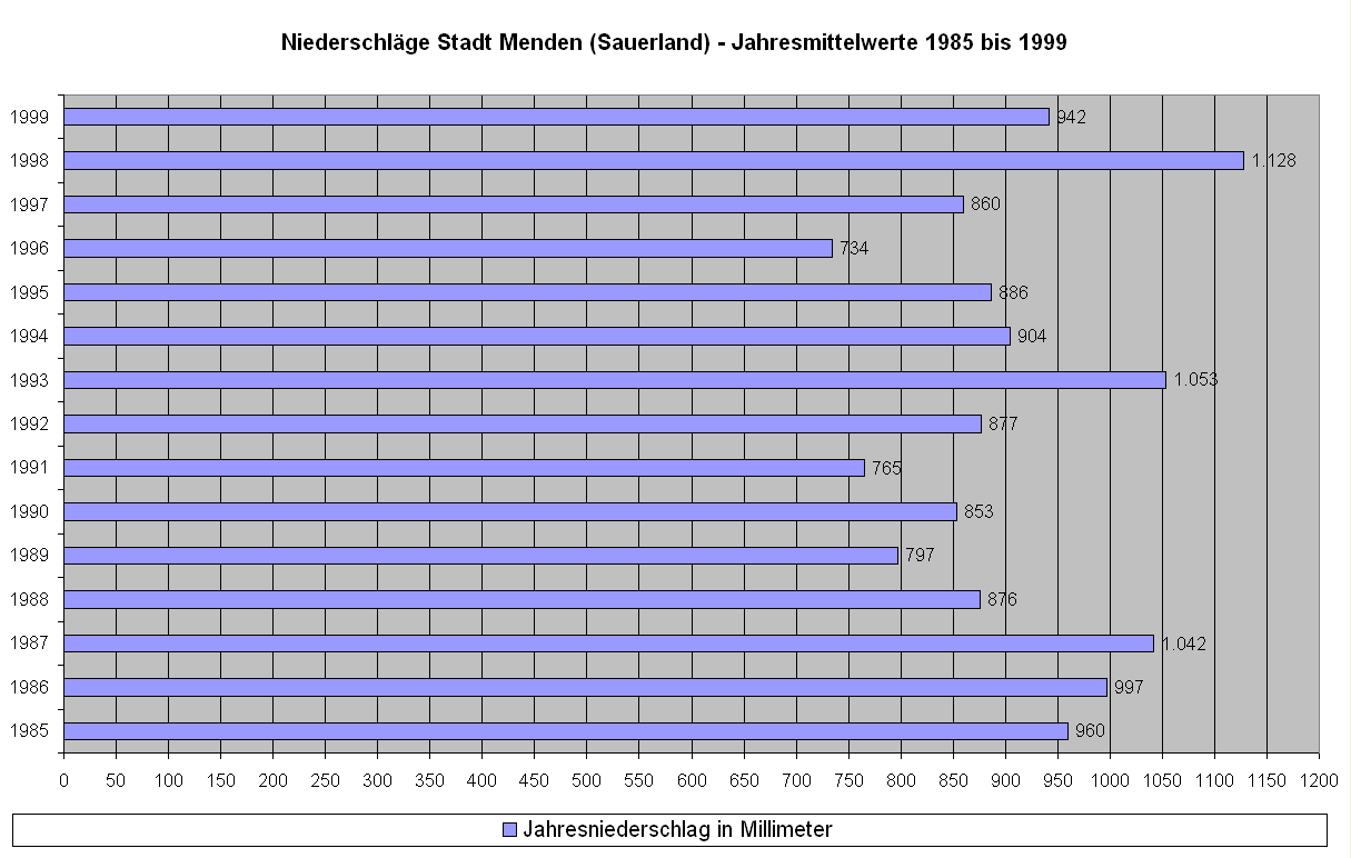 Annual precipitation of Menden (Sauerland) over a period of 1985 to 1999. Data source: Geographische Kommission für Westfalen, GeKo-Aktuell 2001/1, Page 7.